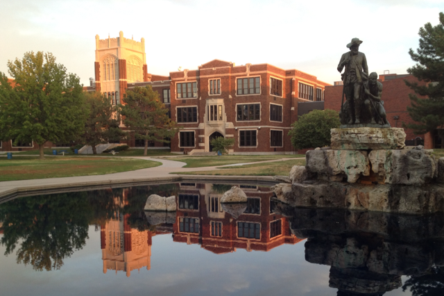 A photo looking southeast at the original Wichita High School building finished in 1923 that now serves as the eastern wing of the school's massive complex. The picture was taken at sunset, and includes the picturesque statue gifted to the school in 1932 depicting a pioneer and Native American peering into a reflecting pond.